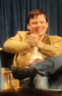 at the 2011 paleyfest